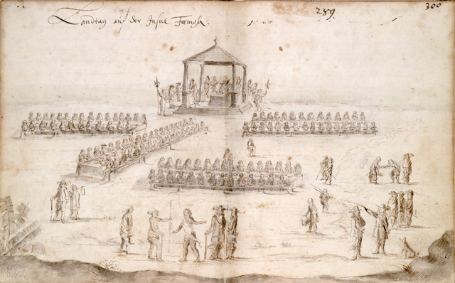 Illustration of a Landdag meeting between Dutch colonial authorities and Formosan allies.